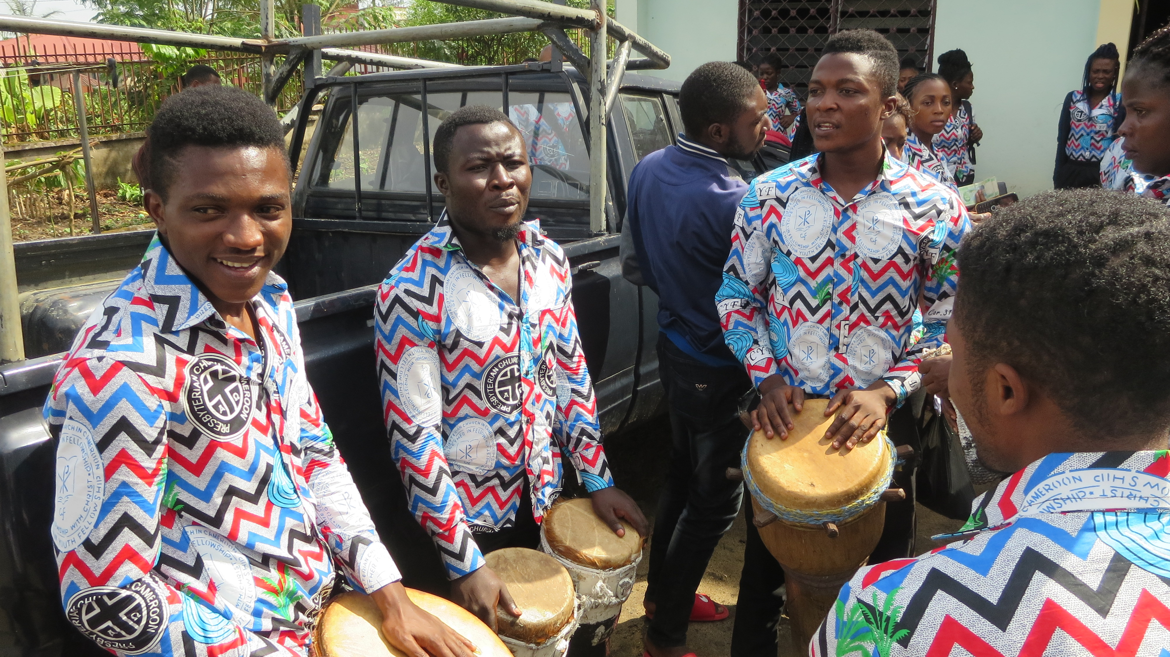 The christian youth fellwship (C.Y.F) is a youth movement under the Presbyterian church in cameroon created in 1959. The aim of this movement is to spread the Word of God through preaching and singing. Christian Youth Fellowship Molyko buea celebrating the CYF Diamond celebration at PC Buea town in cameroon by beating the drums and singing to the glory of God Almighty. This is an image with the theme "Play" from: Cameroon